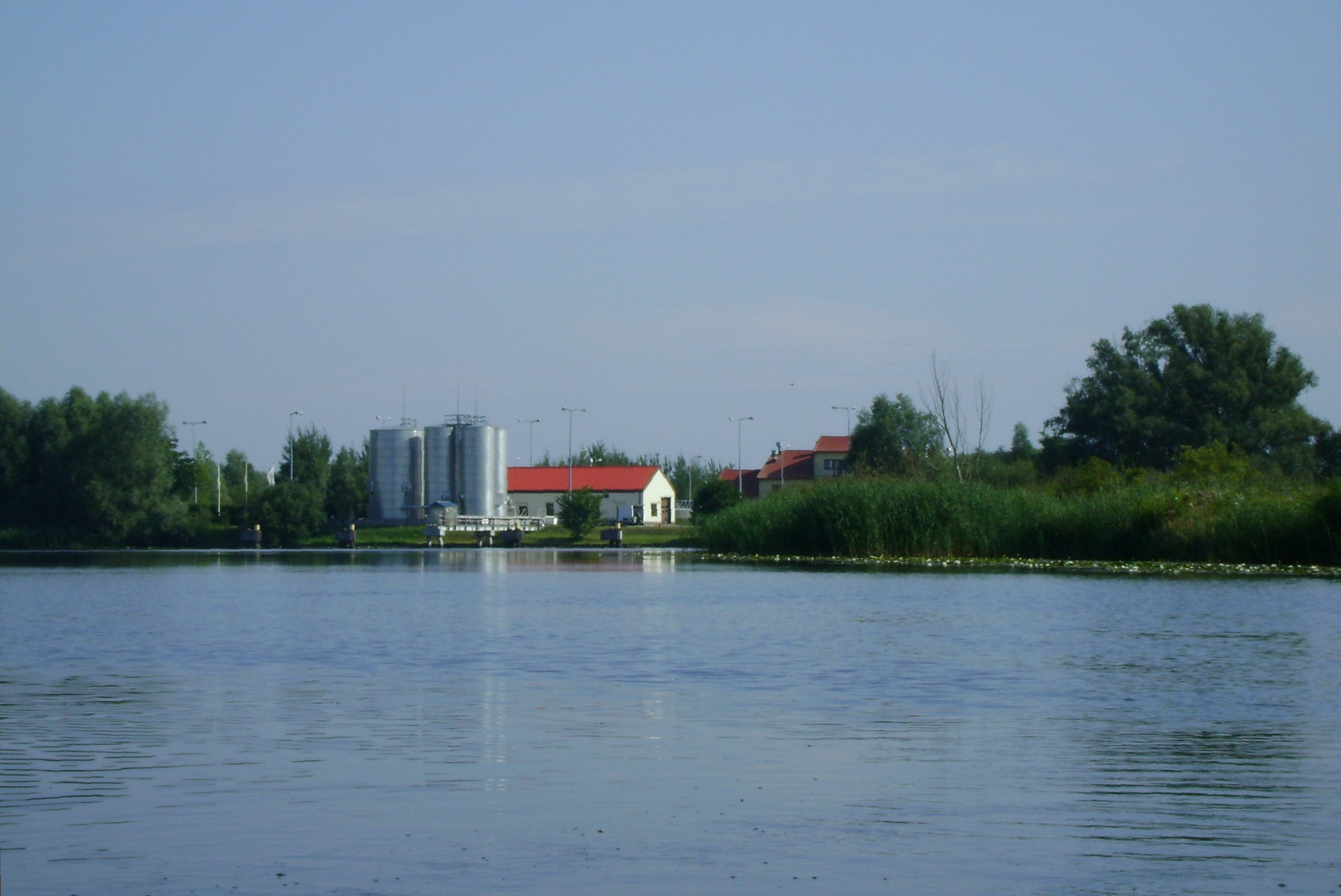 Szczecin, Ostrów Grabowski, sewage treatment plant.